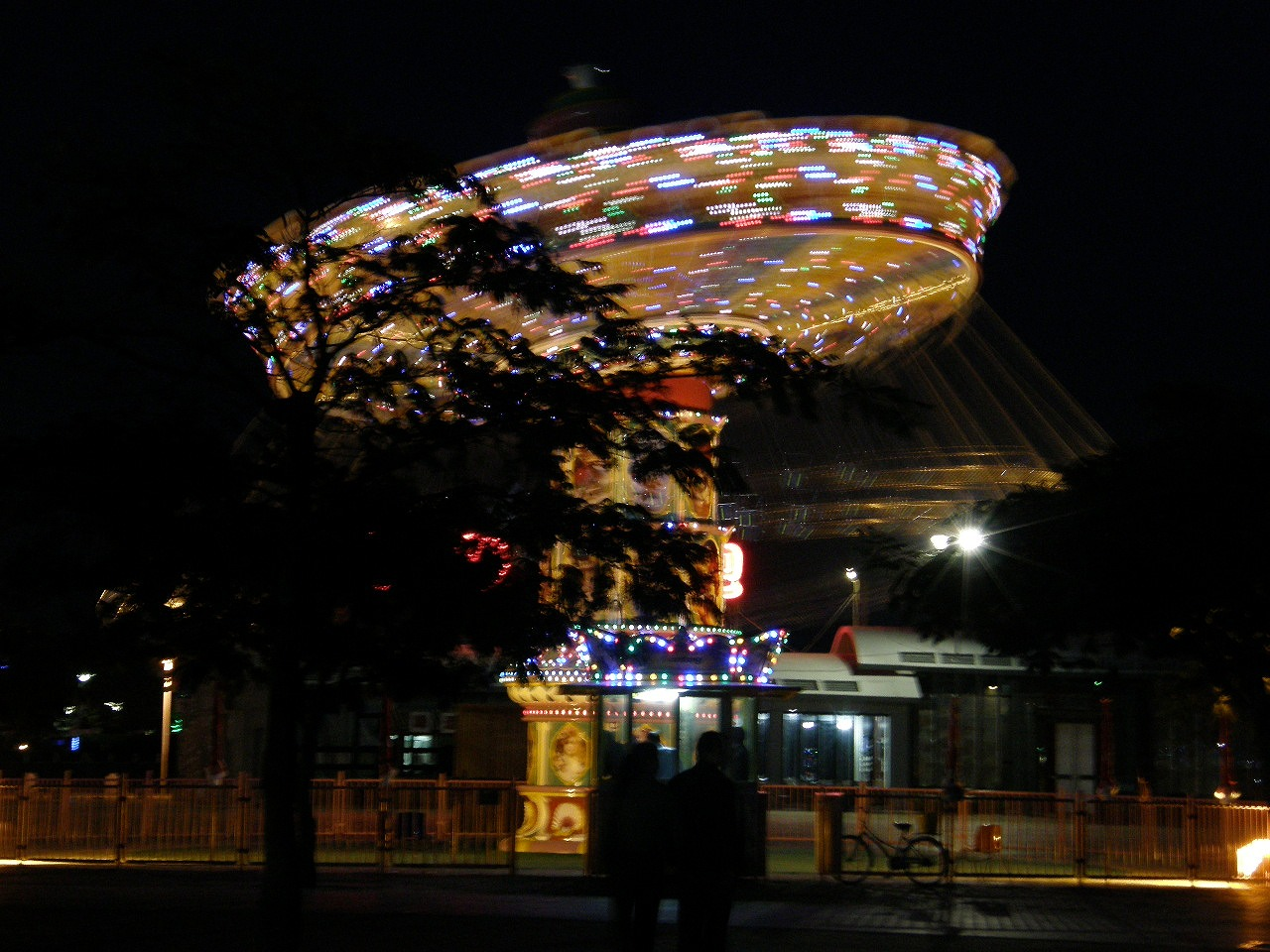 Giant stride